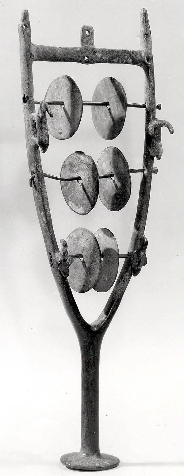 Hattian; Sistrum; Metalwork-Implements